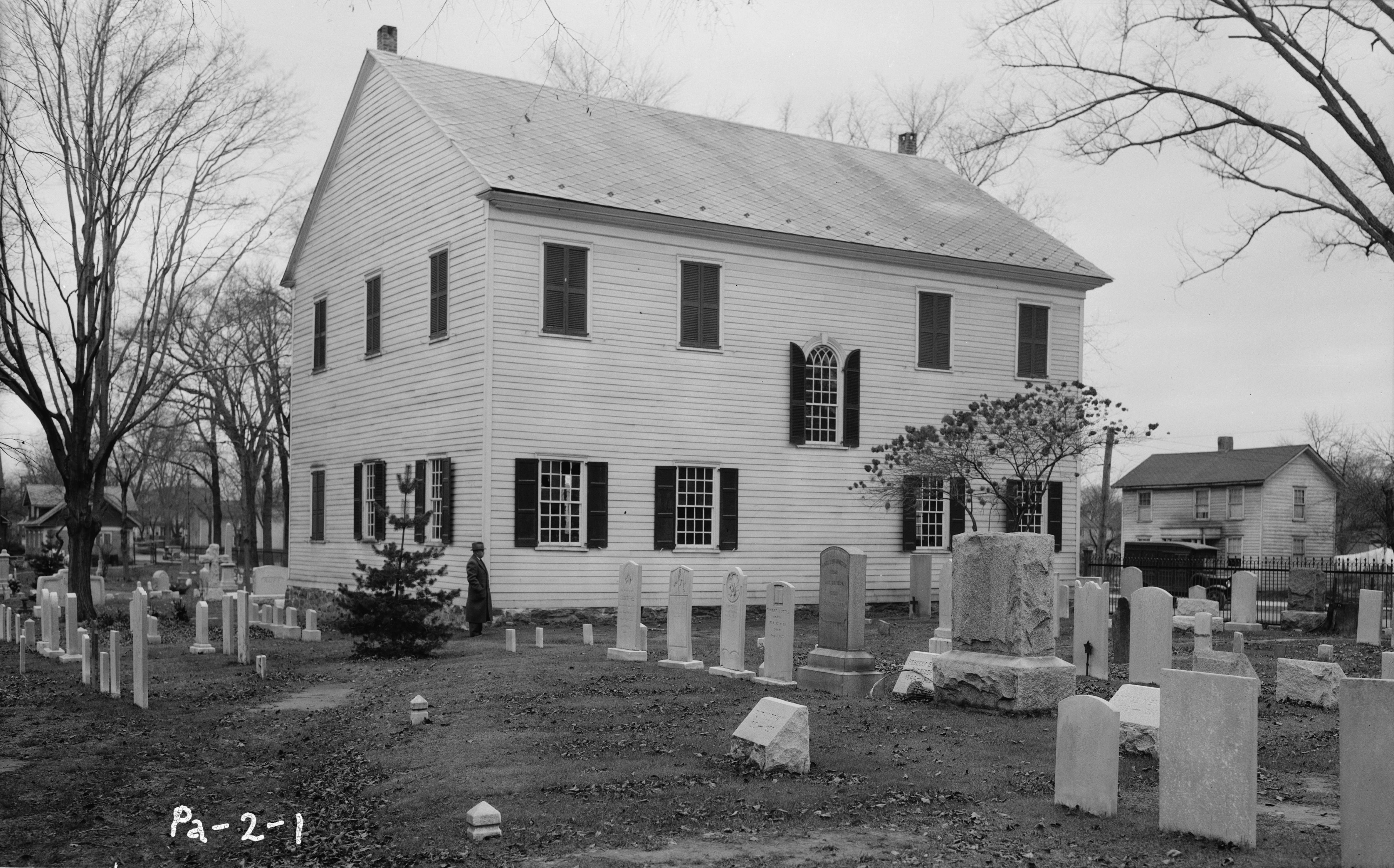 Northern and eastern sides of the Forty Fort Meetinghouse, located at the intersection of River Street and Wyoming Avenue in Forty Fort, Pennsylvania, United States. Built in 1807, it is listed on the National Register of Historic Places.